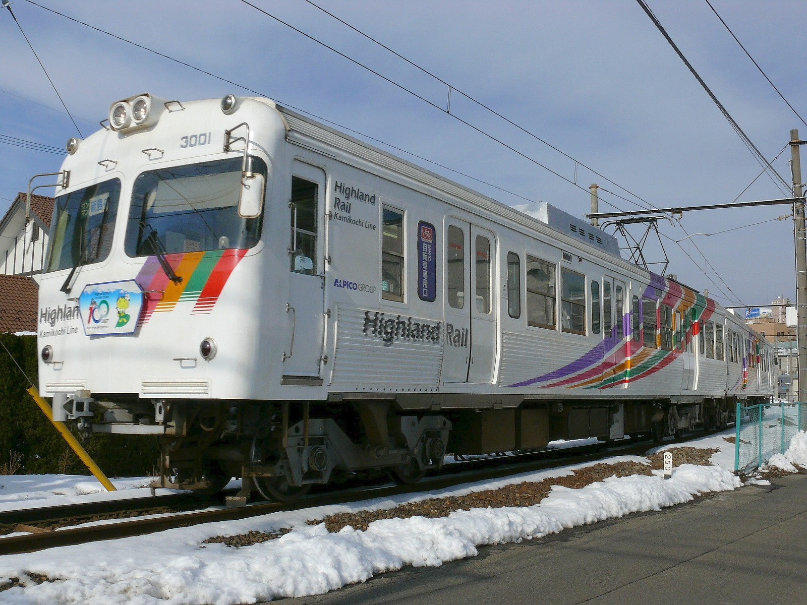 Alpico Kotsu 3000 series EMU set 3001 at Nishi-Matsumoto Station on the Kamikochi Line